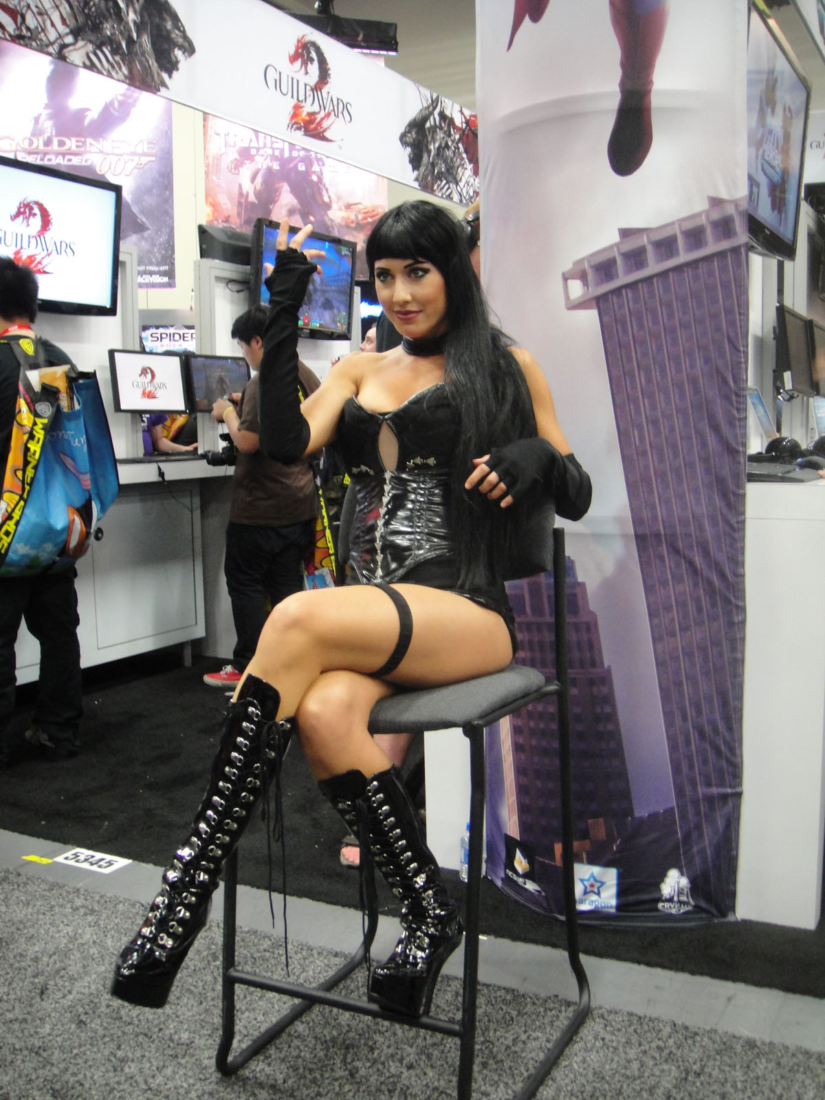 Taken on July 21, 2011 The Metropolitan Project, San Diego, CA, US Sony DSC-T900